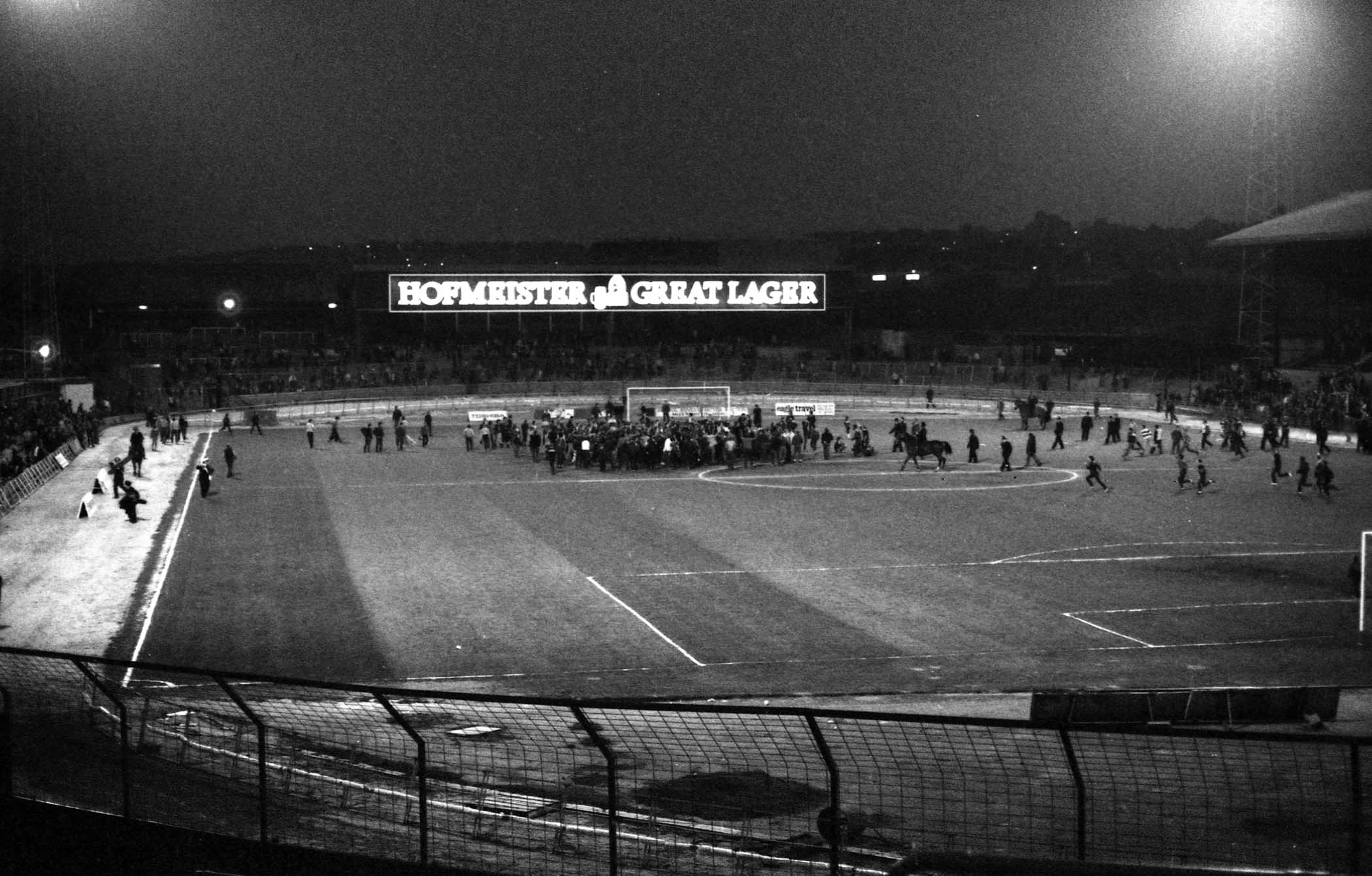 Eastville Stadium, near to Stapleton, Bristol, Great Britain.